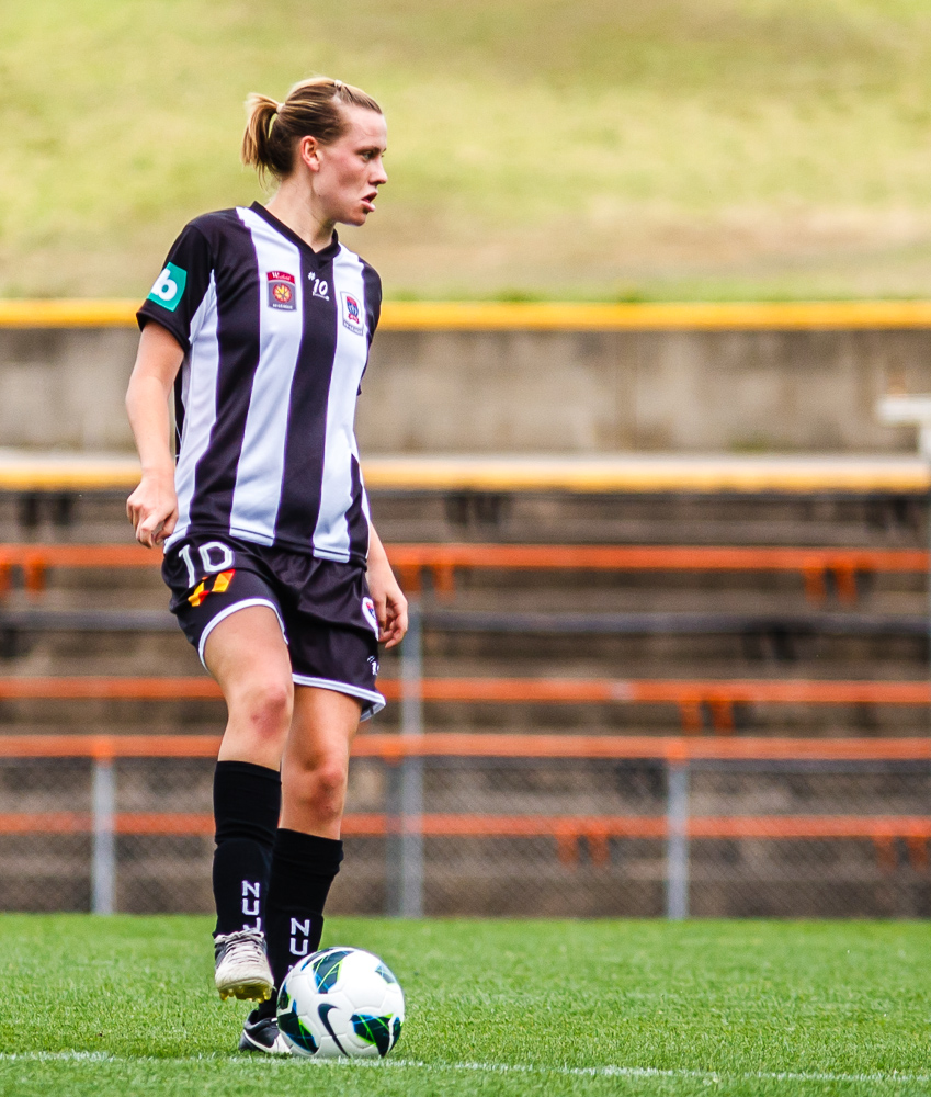 Emily van Egmond playing for the Newcastle Jets